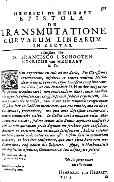 Epistola by Hendrik van Heuraet (1634-1660?) included in the Geometria by Frans van Schooten edited first time in 1659.